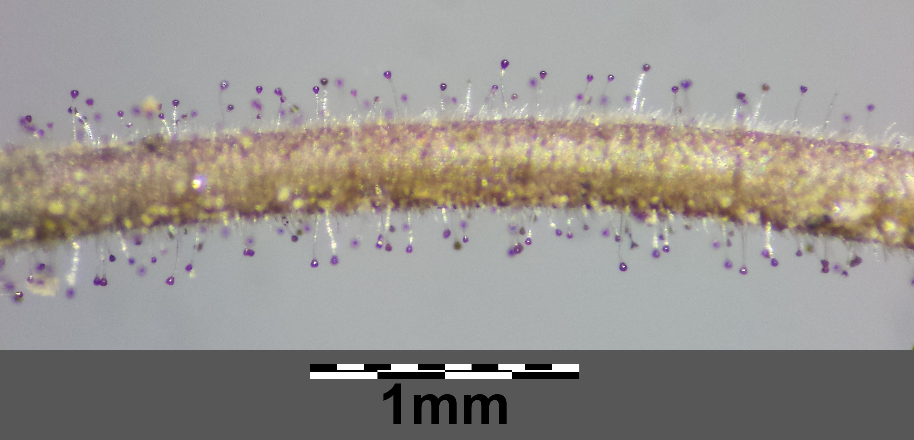 Pedical with glandy hairs Taxonym: Veronica triphyllos ss Fischer et al. EfÖLS 2008 ISBN 978-3-85474-187-9 (det. M. A. Fischer) Location: near Schleinbach, district Mistelbach, Lower Austria - ca. 300 m a.s.l. Habitat: way side